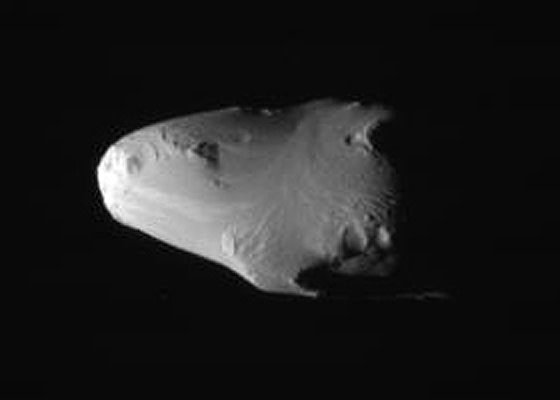 This raw, unprocessed image of Calypso was taken by Cassini on Feb. 13, 2010. The image was taken with the Cassini spacecraft narrow-angle camera on Feb. 13, 2010 using a spectral filter sensitive to wavelengths of ultraviolet light centered at 338 nanometers. The view was obtained at a distance of approximately 23,000 kilometers (14,000 miles) from Calypso. Image scale is 135 meters (443 feet) per pixel. The Cassini Equinox Mission is a joint United States and European endeavor. The Jet Propulsion Laboratory, a division of the California Institute of Technology in Pasadena, manages the mission for NASA's Science Mission Directorate, Washington, D.C. The Cassini orbiter was designed, developed and assembled at JPL. The imaging team consists of scientists from the US, England, France, and Germany. The imaging operations center and team lead (Dr. C. Porco) are based at the Space Science Institute in Boulder, Colo. For more information about the Cassini Equinox Mission visit and The original NASA image has been modified by cropping, doubling the linear pixel density, sharpening and removal of a cosmic ray artifact.